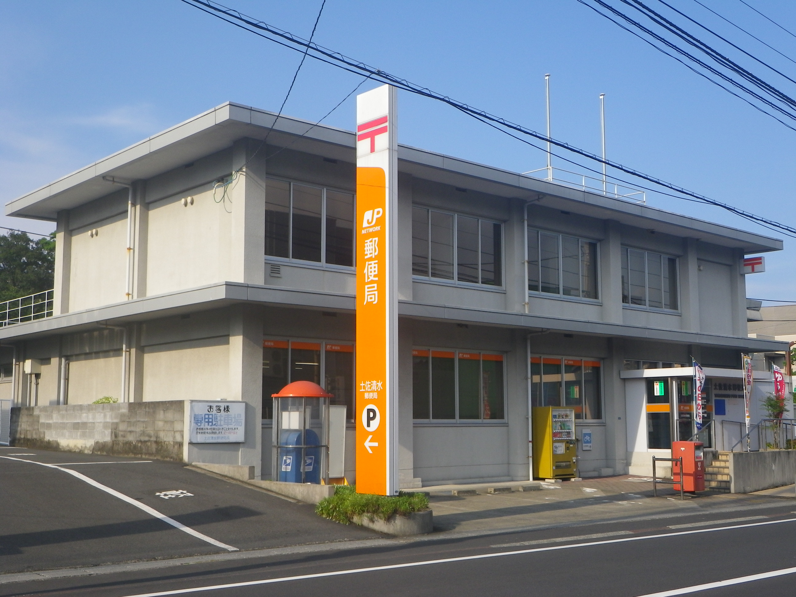 Tosashimizu post office